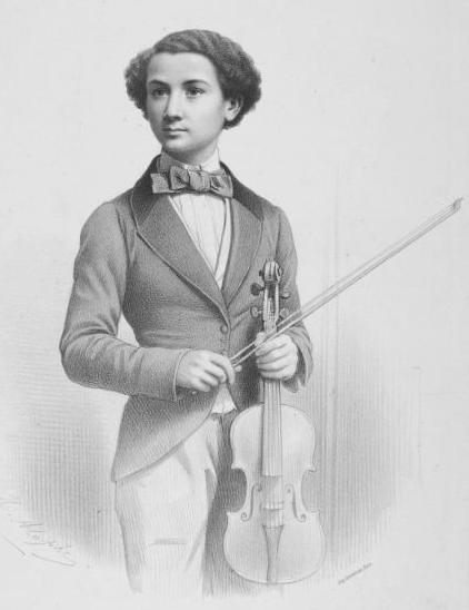 Polish violinist Izydor Lotto (1840-1927) by Marie-Alexandre Alophe (1812-1883). Caption: "Izydor Lotto, Premier Prix (1853) du Conservatoire Impérial de Musique de Paris."